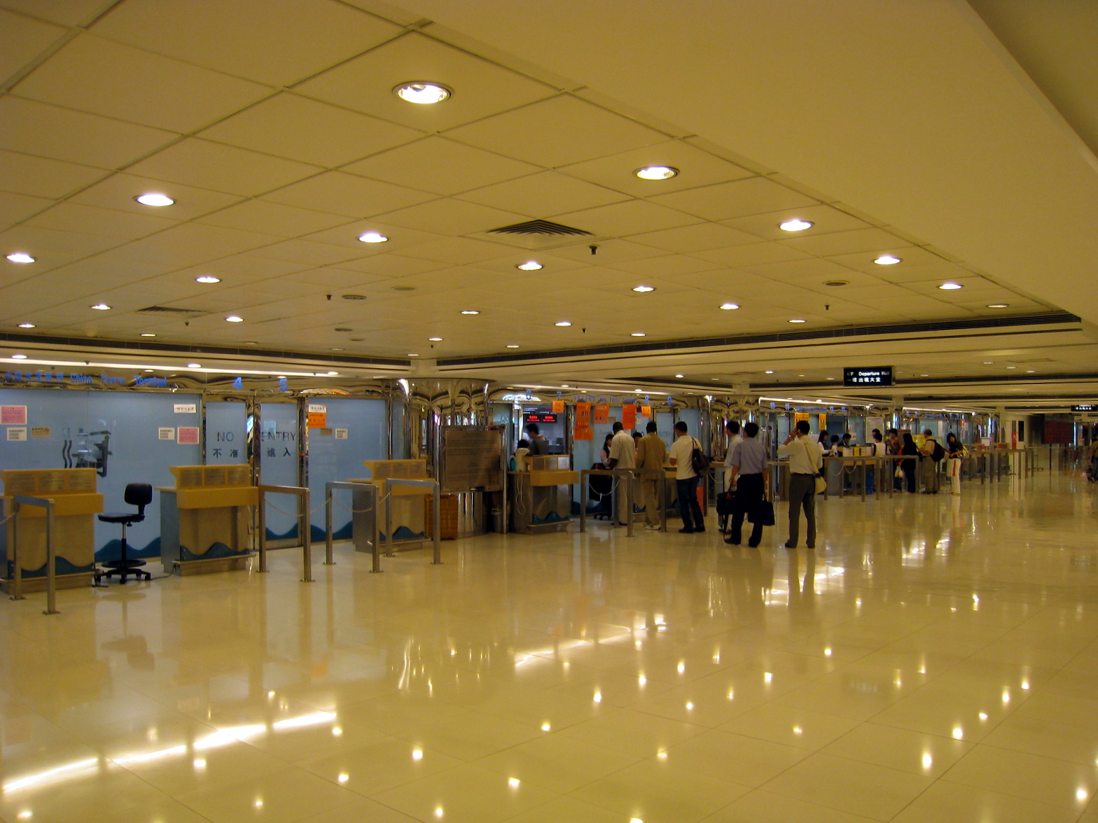 China Hong Kong City Departure Hall 中港城